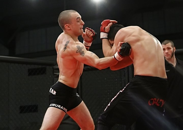 Mike Richman fighting Ryan Stock